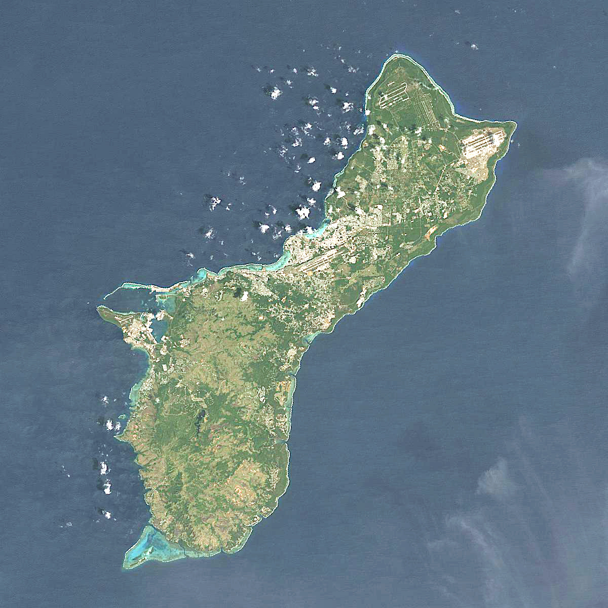 Satellite Image of Guam, USA Equirectangular projection, N/S stretching 100.0 %. Geographic limits of the map: N: 13.70° N S: 13.20° N W: 144.54° E E: 145.03° E This map was created with GeoTools.